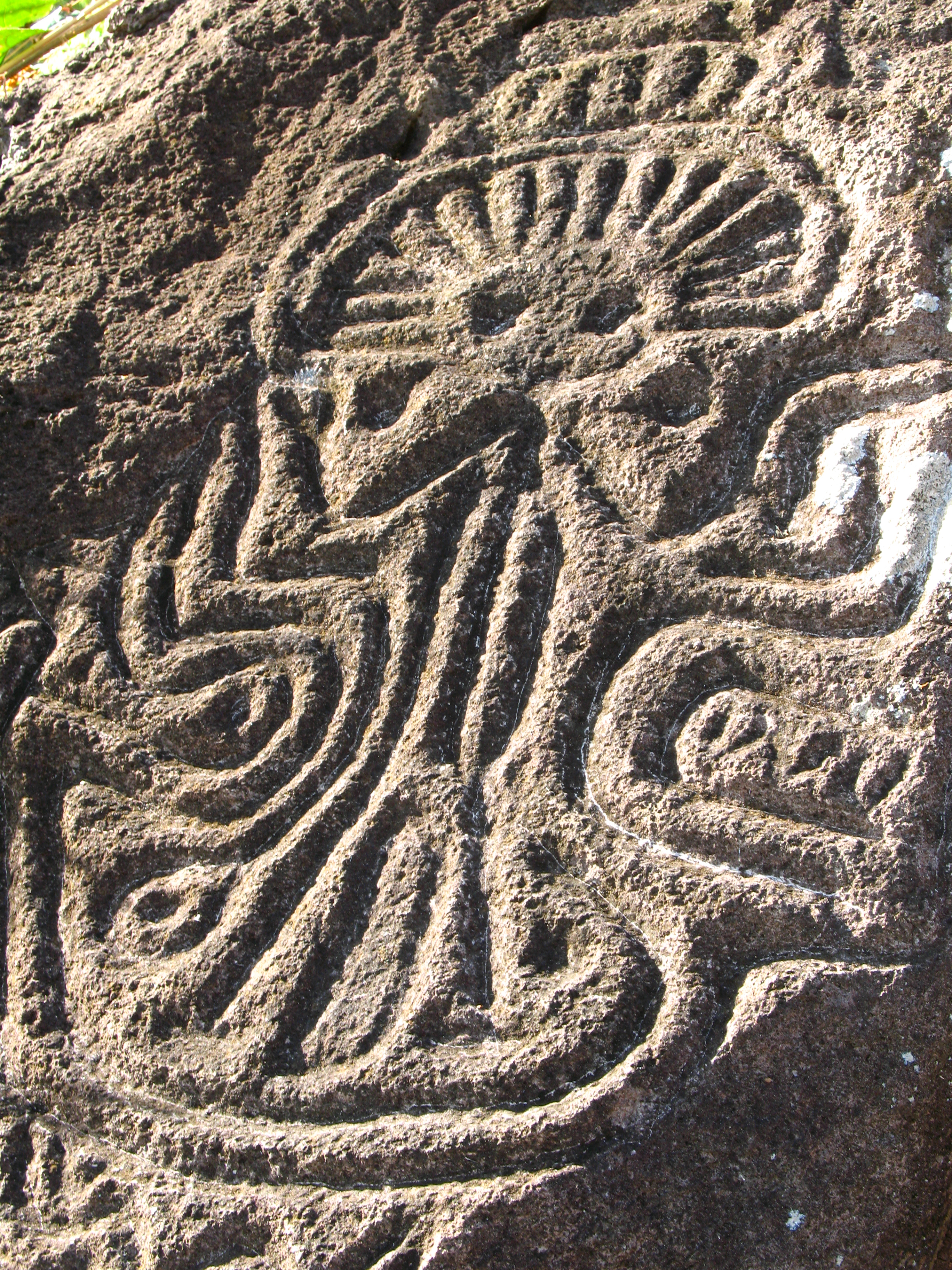 Petroglyphs, Ometepe island, Nicaragua